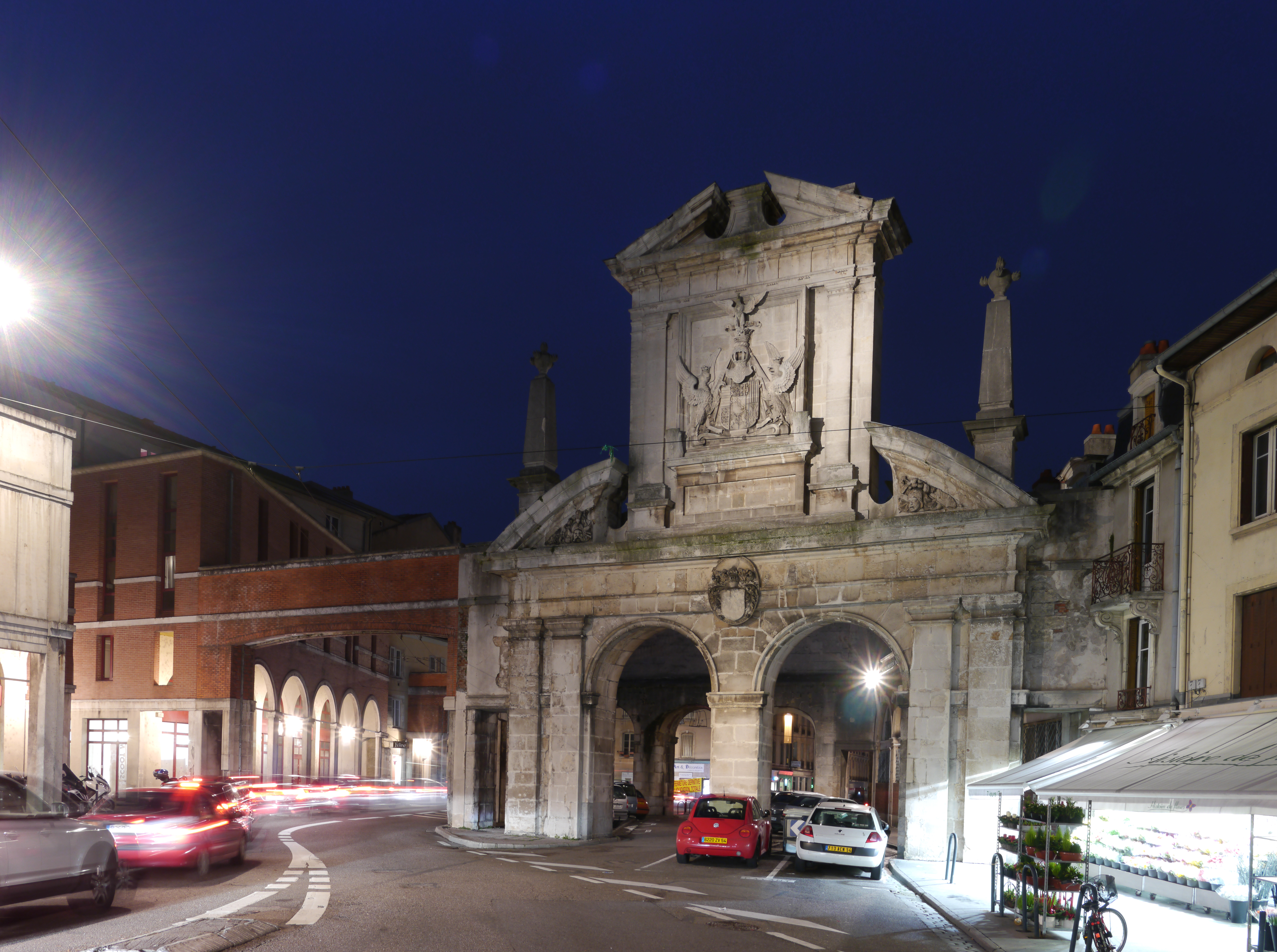 photographs taken in Nancy between the 6th and 9th of december 2011.